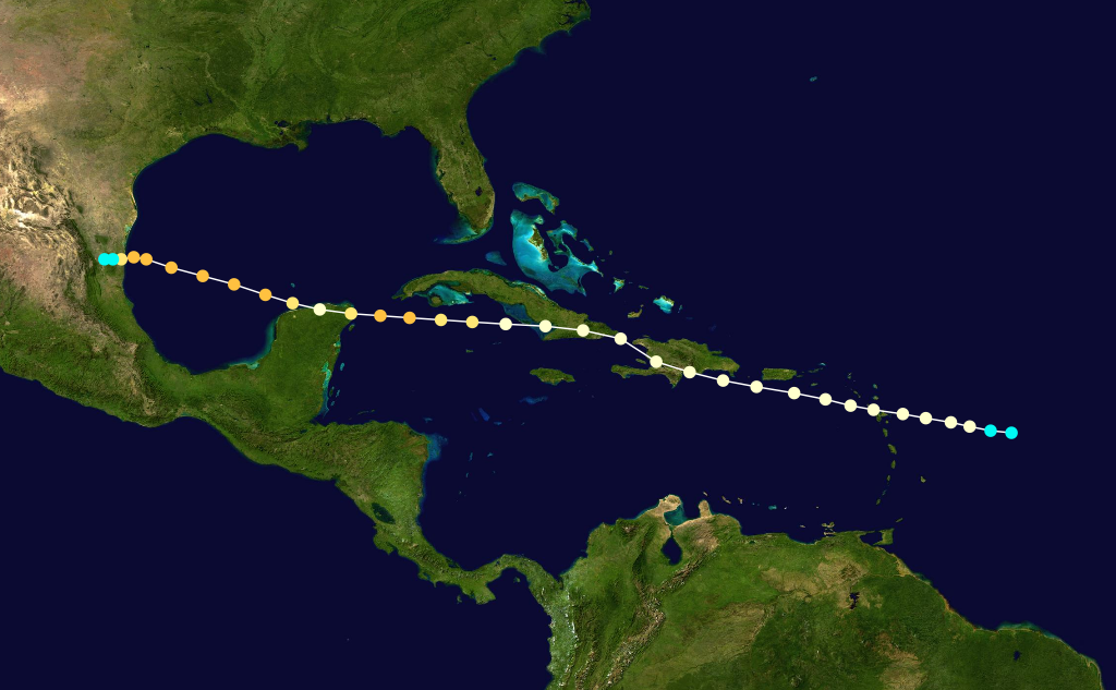 1909 Atlantic hurricane 6 track.png track. Uses the color scheme from the Saffir-Simpson Hurricane Scale.